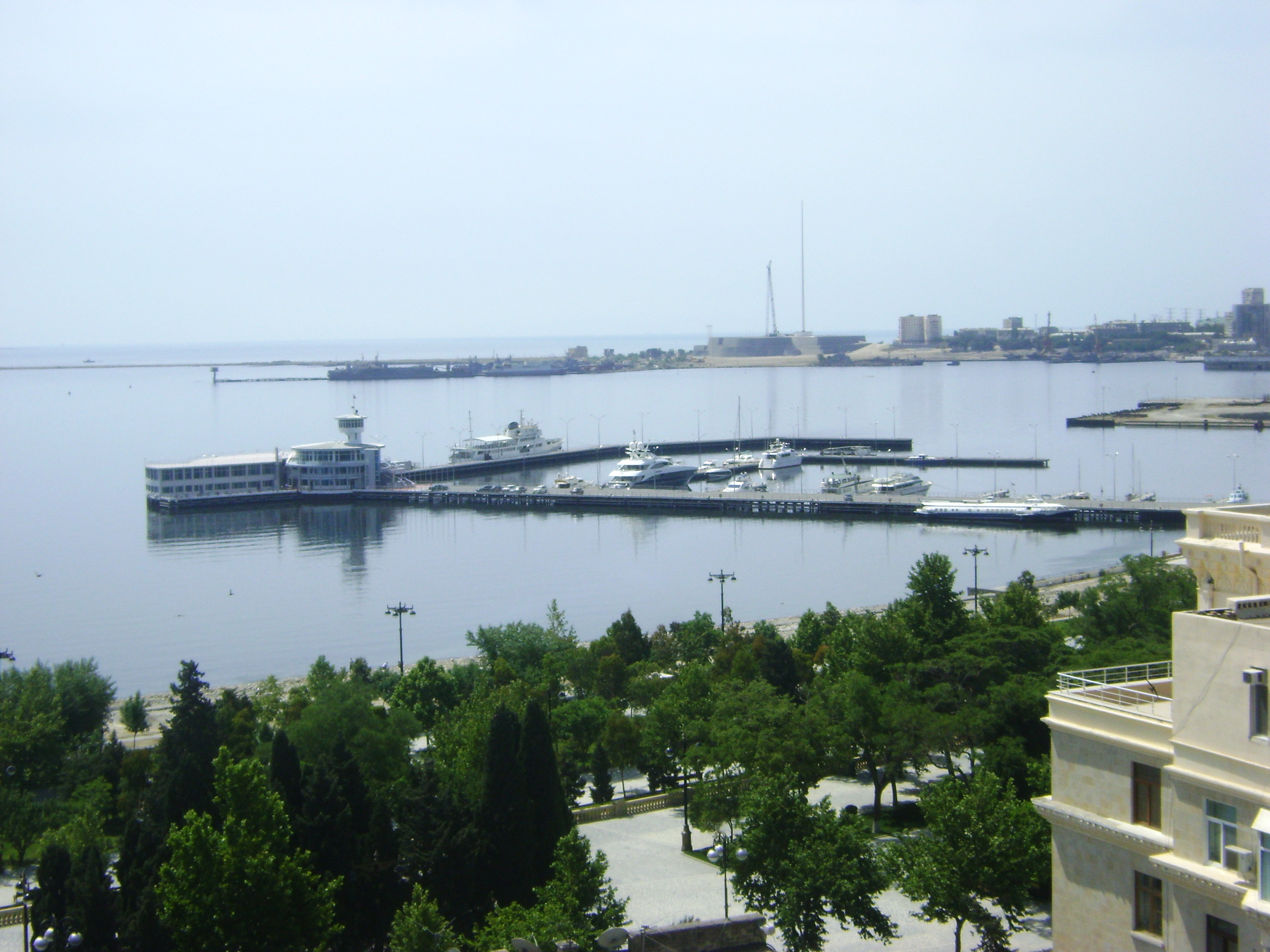 baku_boulevard_view(yachting_club)_from_the_maidens_tower